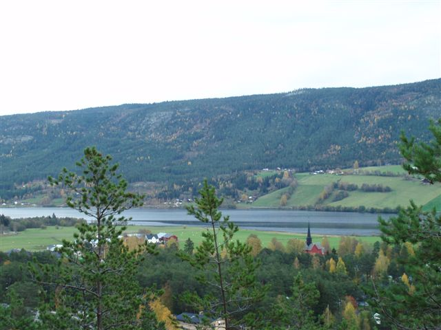 village Otnes and northern part of lake Lomnessjøen in rendalen, Norway